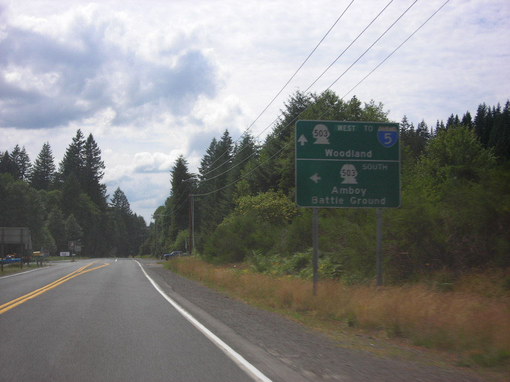 Washington State Route 503 Spur eastbound approaching its western terminus, an intersection with Washington State Route 503 east of Yale, Washington.